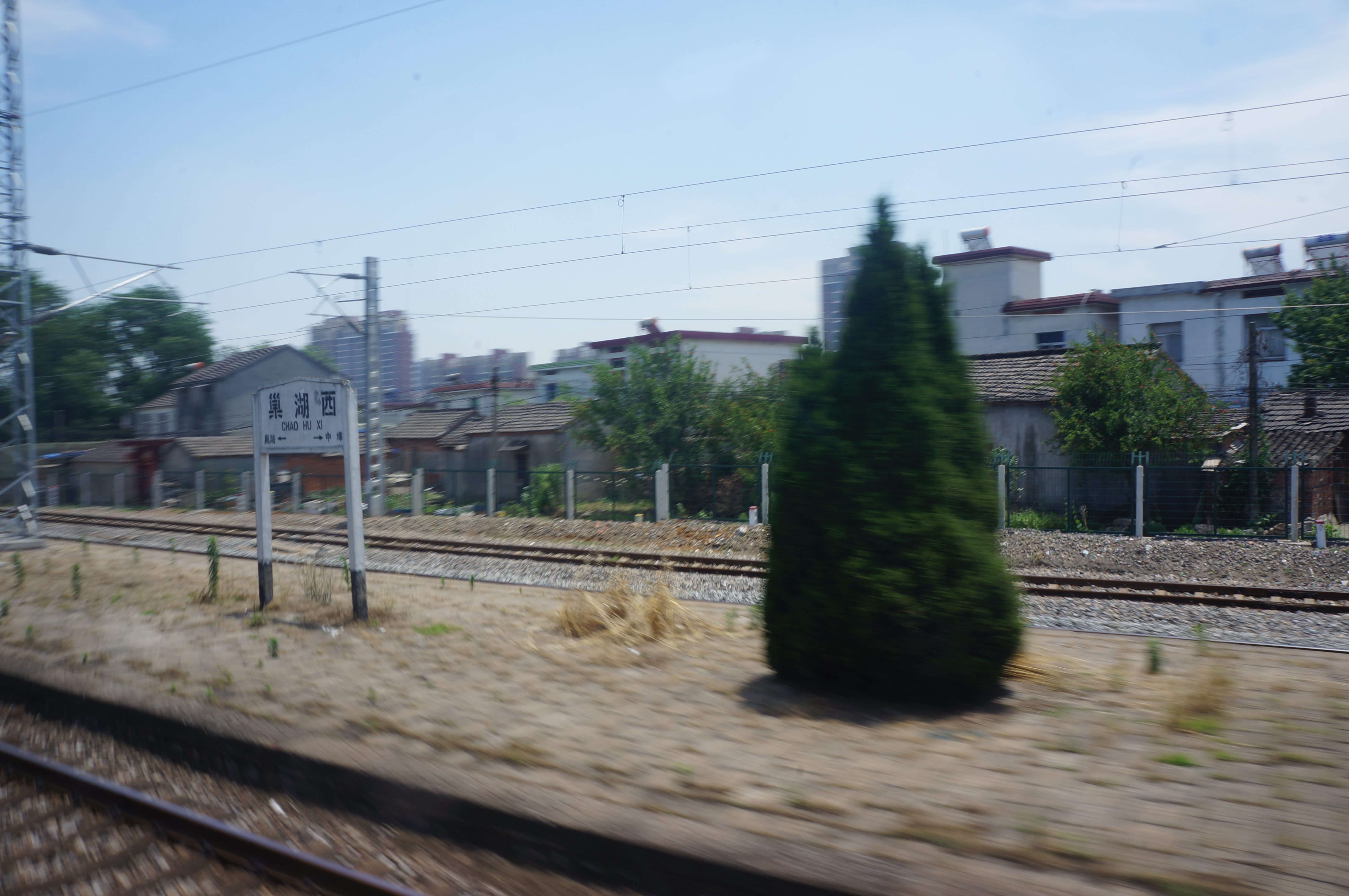 201705 Nameboard of Chaohuxi Station, I was thinking about Chaw Foo Parkview Green...